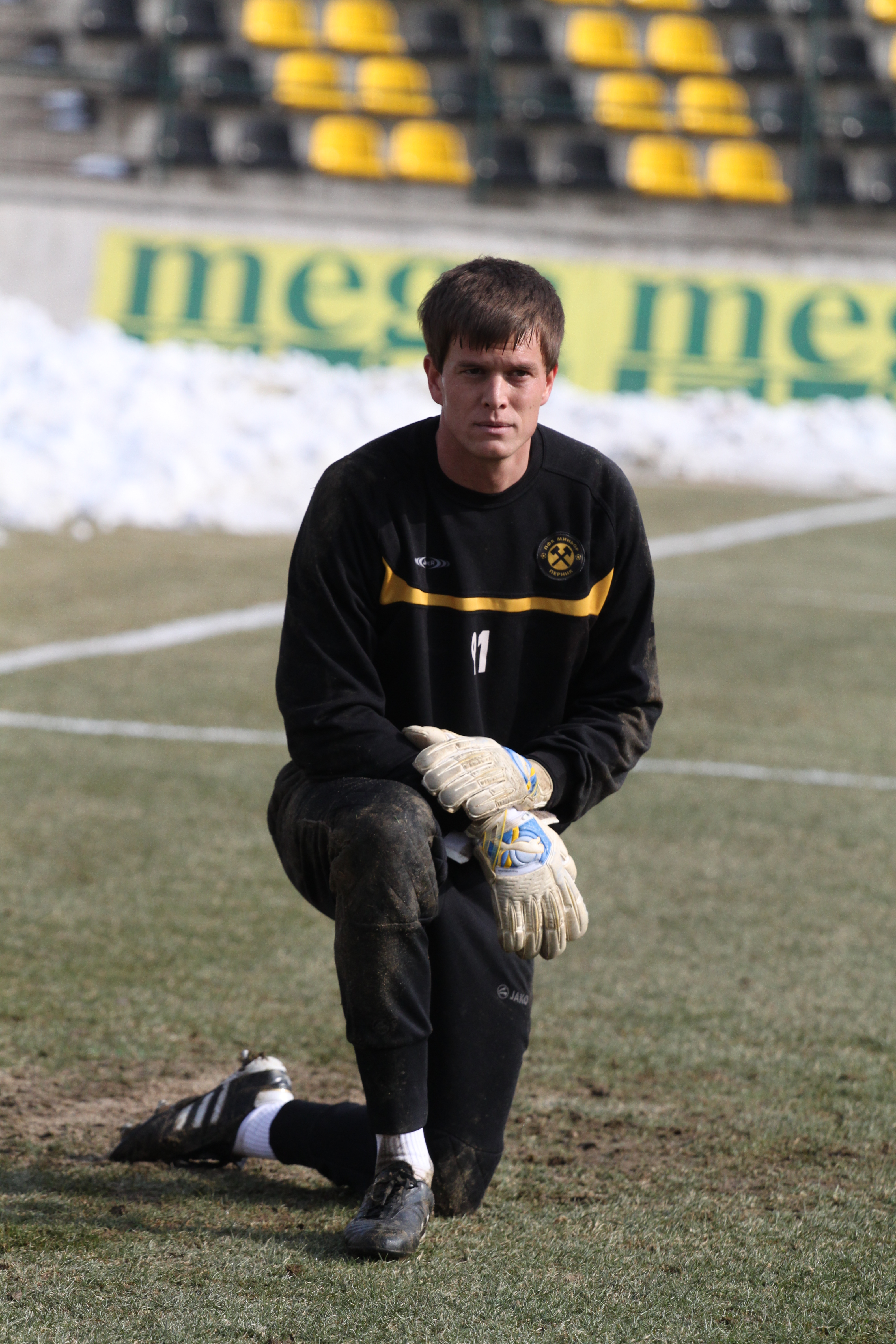 Ivan Cvorovich - serbian soccer player, goalkeeper, he played for bulgarian team Minior Pernik